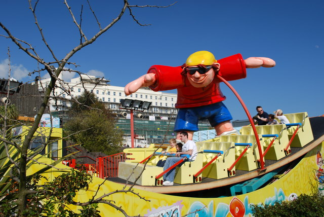 Giant Skateboard Skateboard ride at Adventure Island